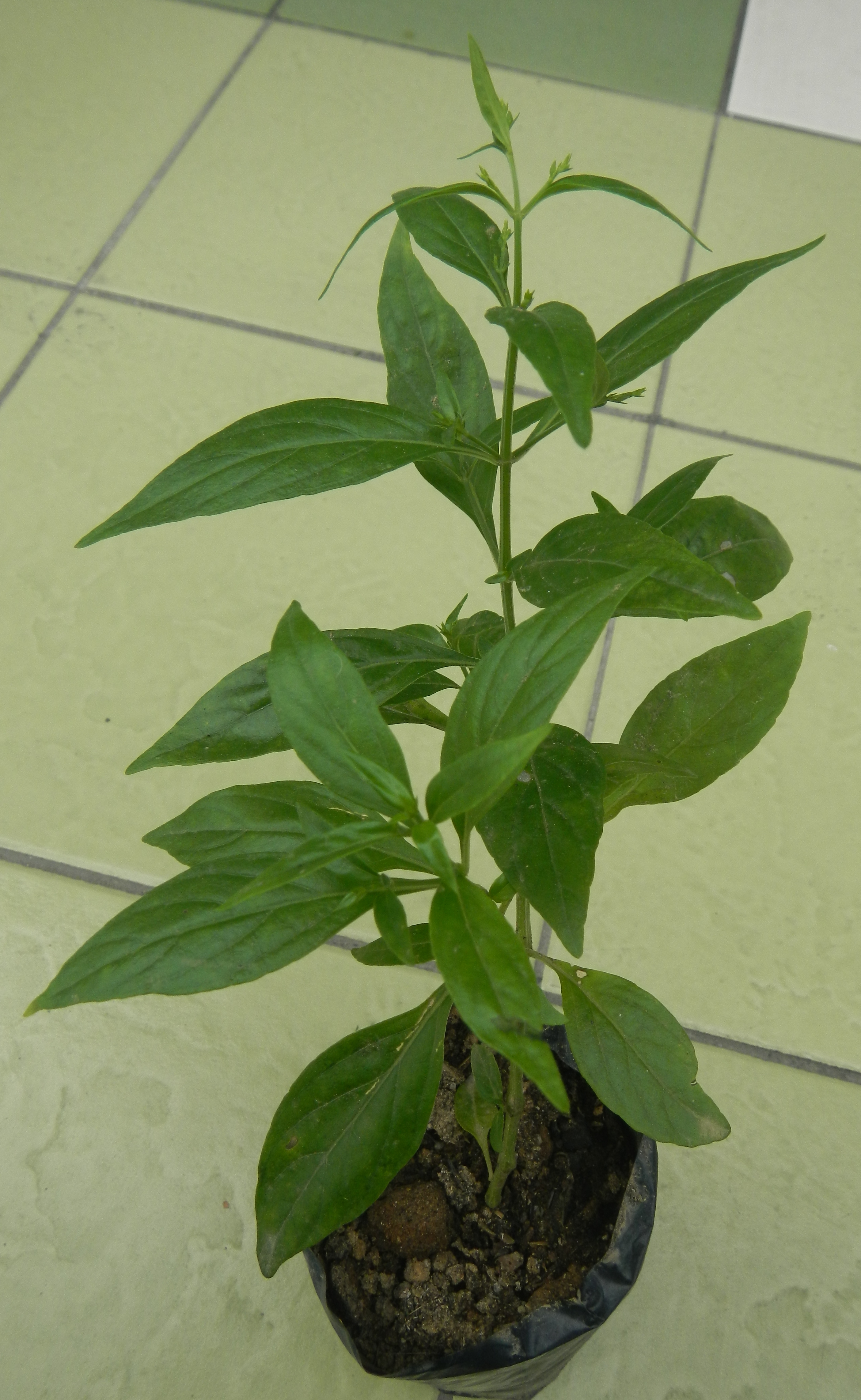 Rauvolfia serpentina, or ' Indian snakeroot' or 'sarpagandha' the Herb For Diabetes Andrographis Paniculata and Sinta.